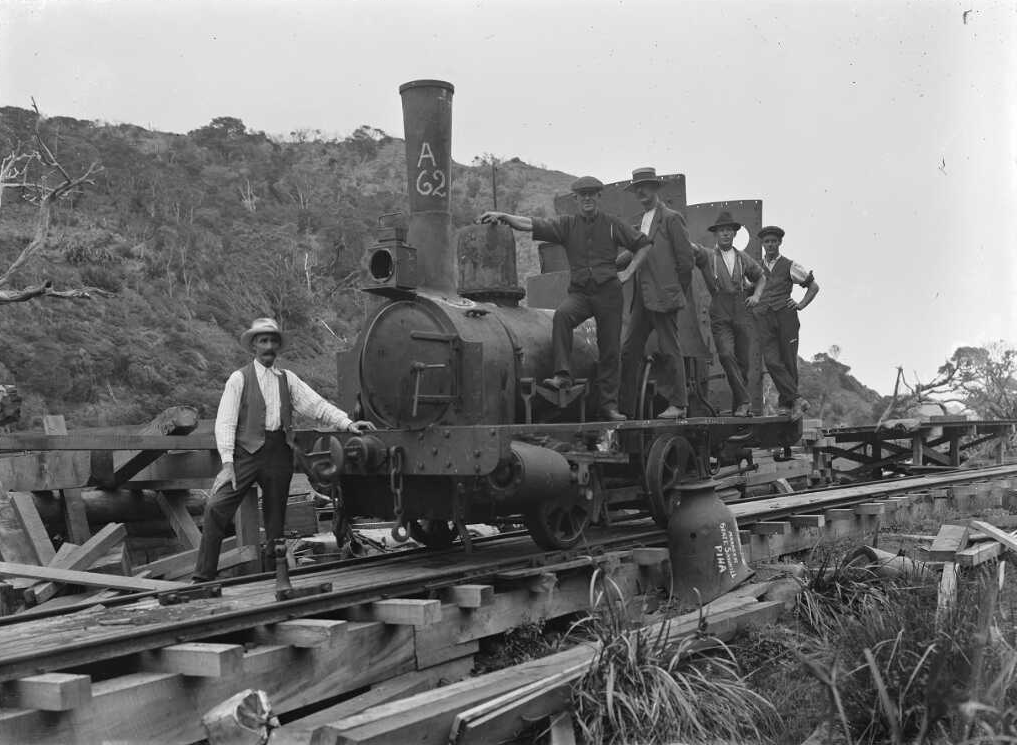 Erecting a locomotive at Piha, for use on the Piha Tramway. This is locomotive A62 (0-4-0T type). The manager of the Piha Mill stands in front of the locomotive, with four undentified men standing on the running board. Taken by Albert Percy Godber between 1915 and 1916. Original print in album PA1-q-102, page 5 "A" 62 was built by Dubs in 1873 (maker's no. 656/73), and went into service in January 1875 at Christchurch and Timaru. She was transferred to Wellington in 1897, and six years later was loaned to the New Zealand Railways Maintenance Branch for working the quarry at Pencarrow, Wellington, and in 1906 was purchased by the Maintenance Branch. In 1914 she was sent north to the Stores Branch sawmill tramway between Piha and Whatipu, and five years later returned to the Newmarket Workshops for shunting duties. Borrowed by a sawmilling company near Rotorua in 1921, and finally written off in 1926. See "Cavalcade of New Zealand locomotives" by A N Palmer and W W Stewart.